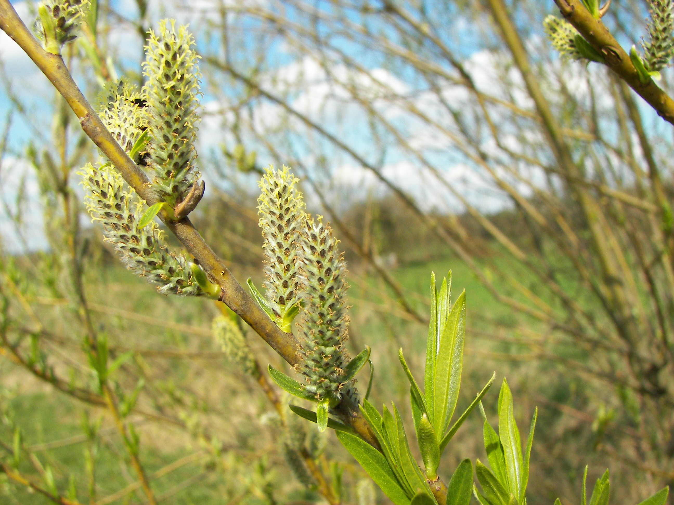 Common Osier (Salix viminalis), female catkins, Location: Fronhausen-Belnhausen, Hesse, Germany